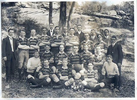 Annandale RLFC (rugby league) Australia